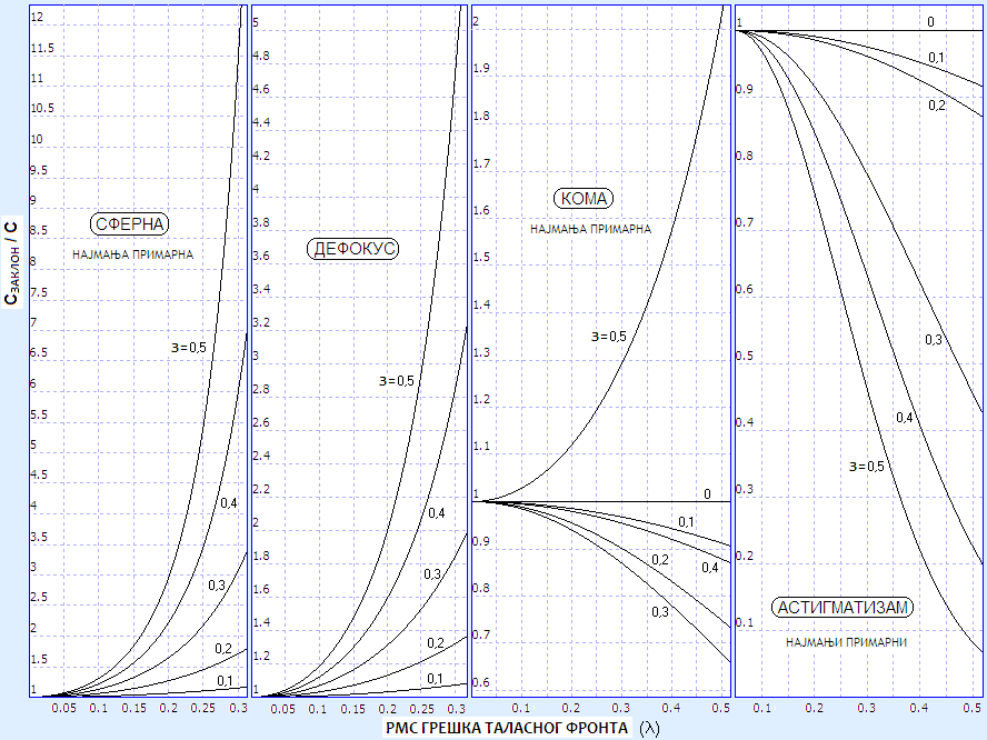 ПРОМЕНА СТРЕЛ РАЦИА У ЗАВИСНОСТИ ОД ВЕЛИЧИНЕ СРЕДИШЊЕГ ЗАКЛОНА